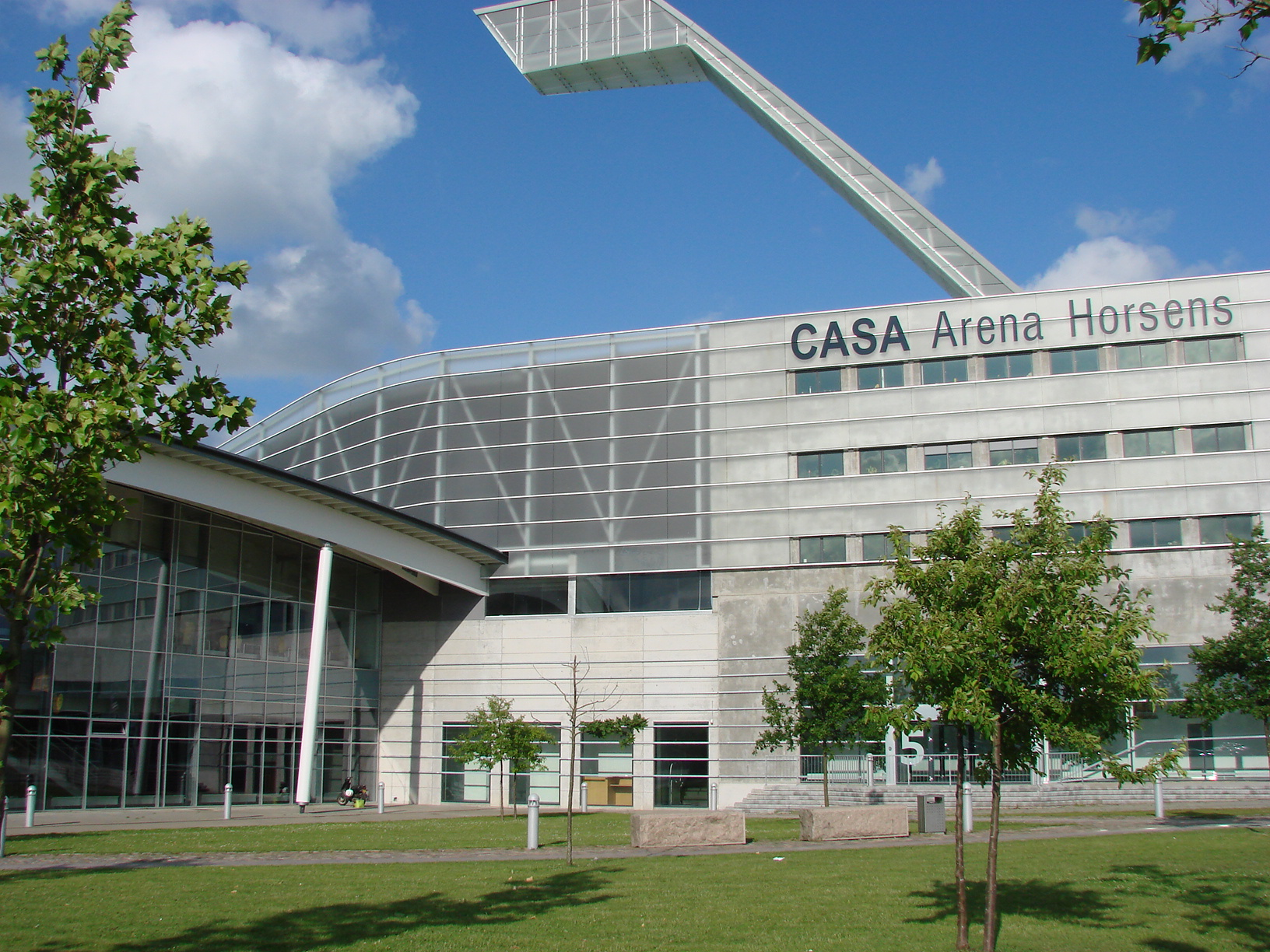 ac horsens